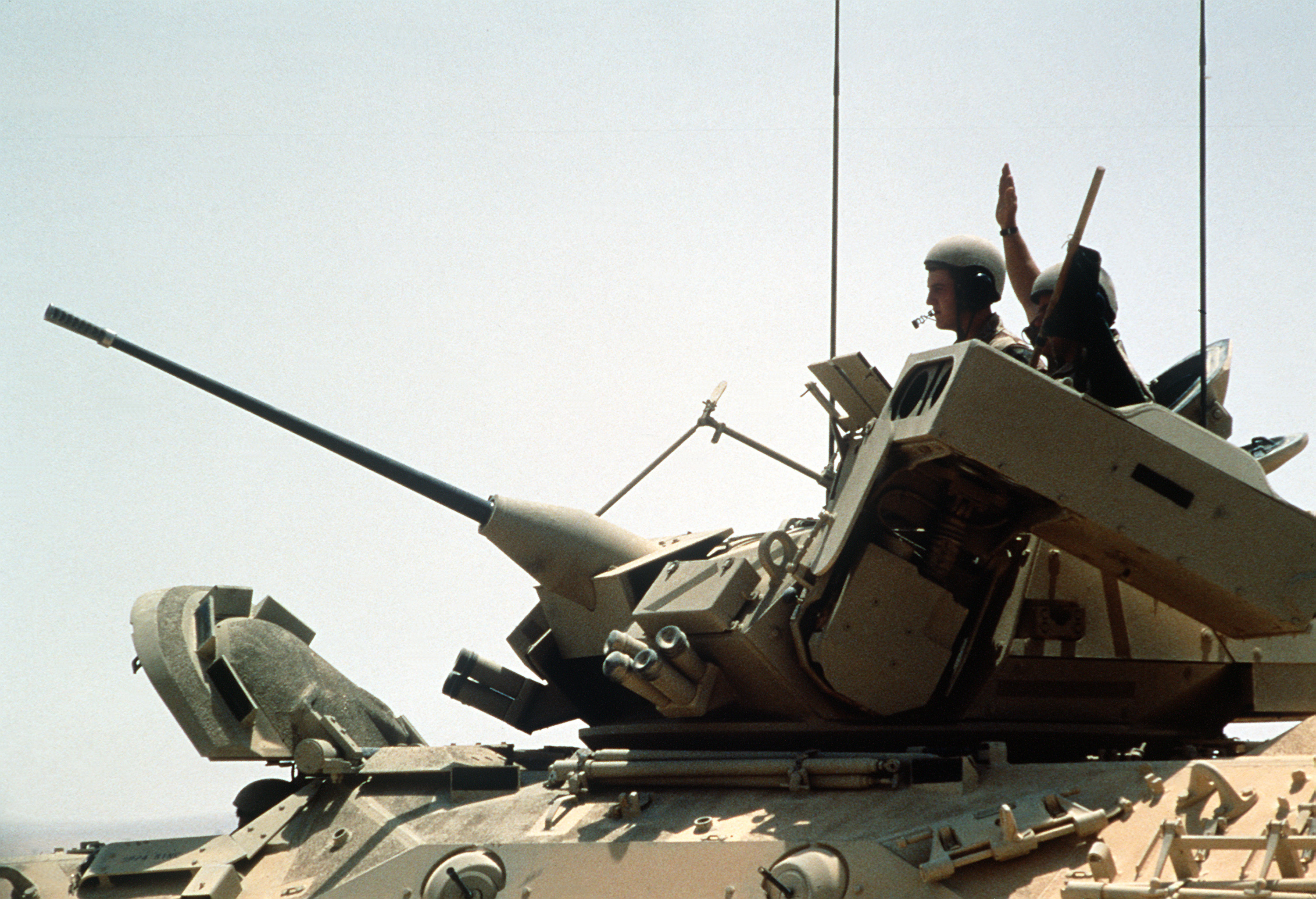 A right front view of an M-2 Bradley Fighting Vehicle with its 25mm cannon elevated during a demonstration. The gunner's, commander's and driver's hatches are open.